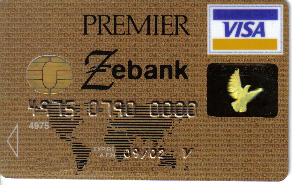 Anonymised Zebank Premier Payment Card